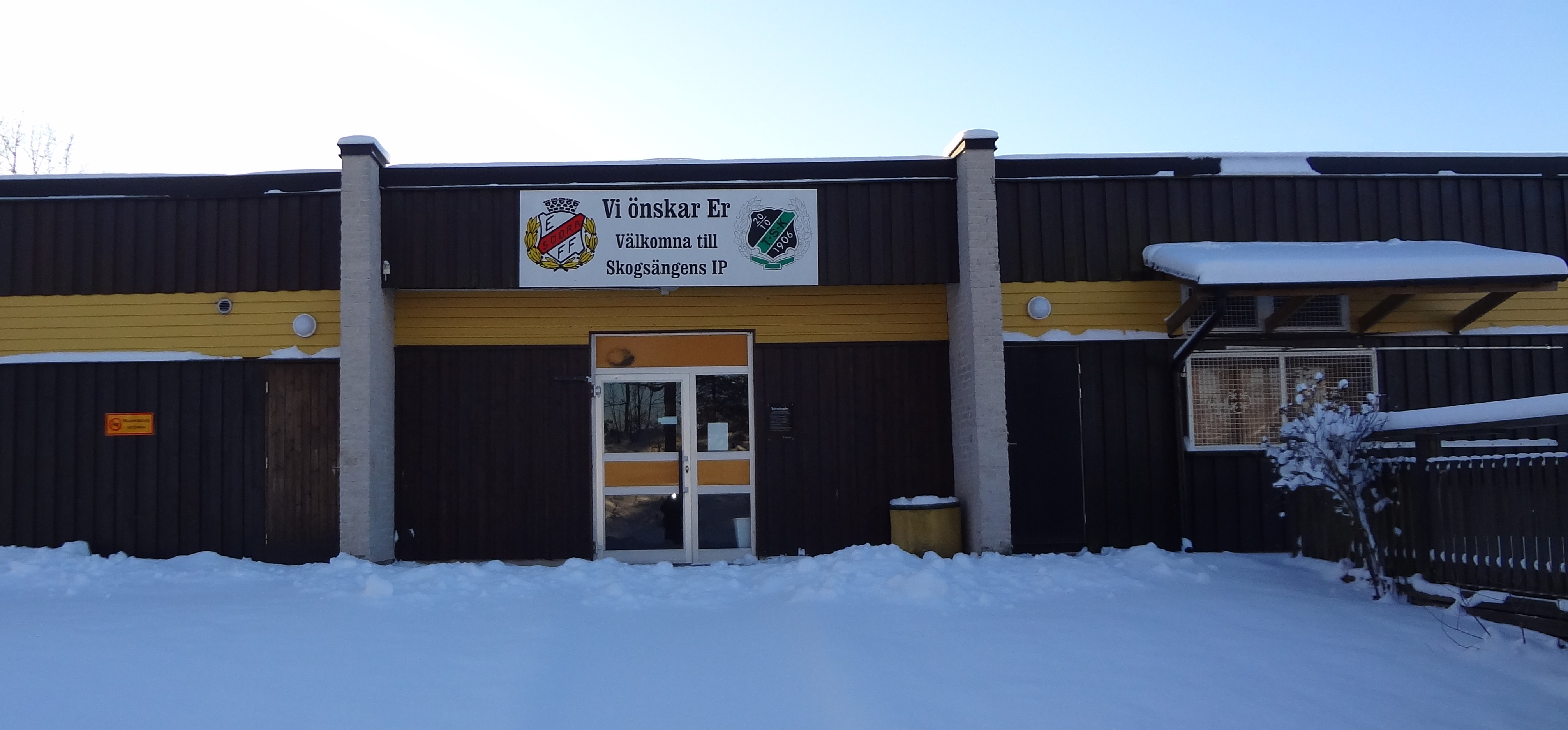 Skogsängens IP (soccerfield) in Eskilstuna.